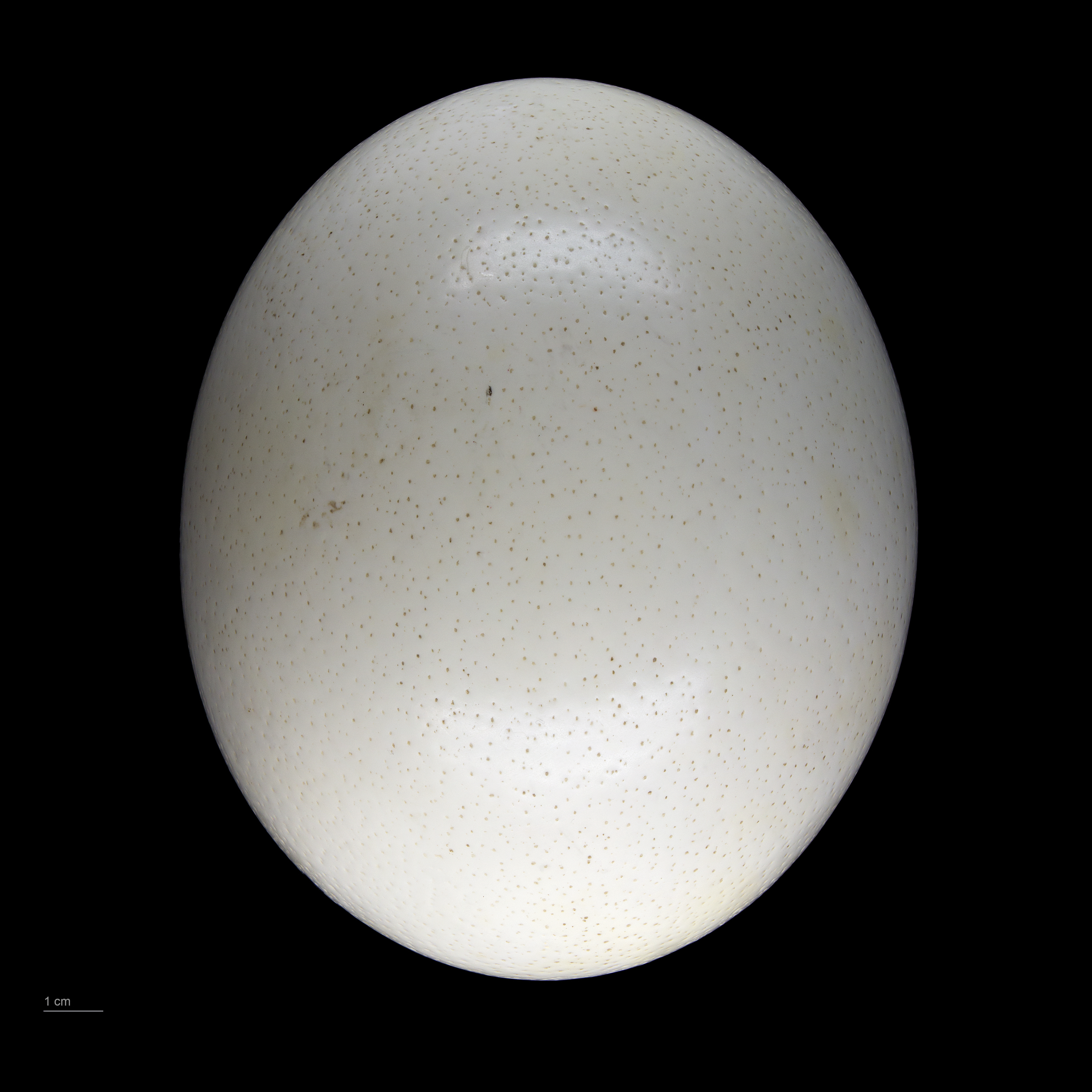 Egg of ostrich Collection of Jacques Perrin de Brichambaut.